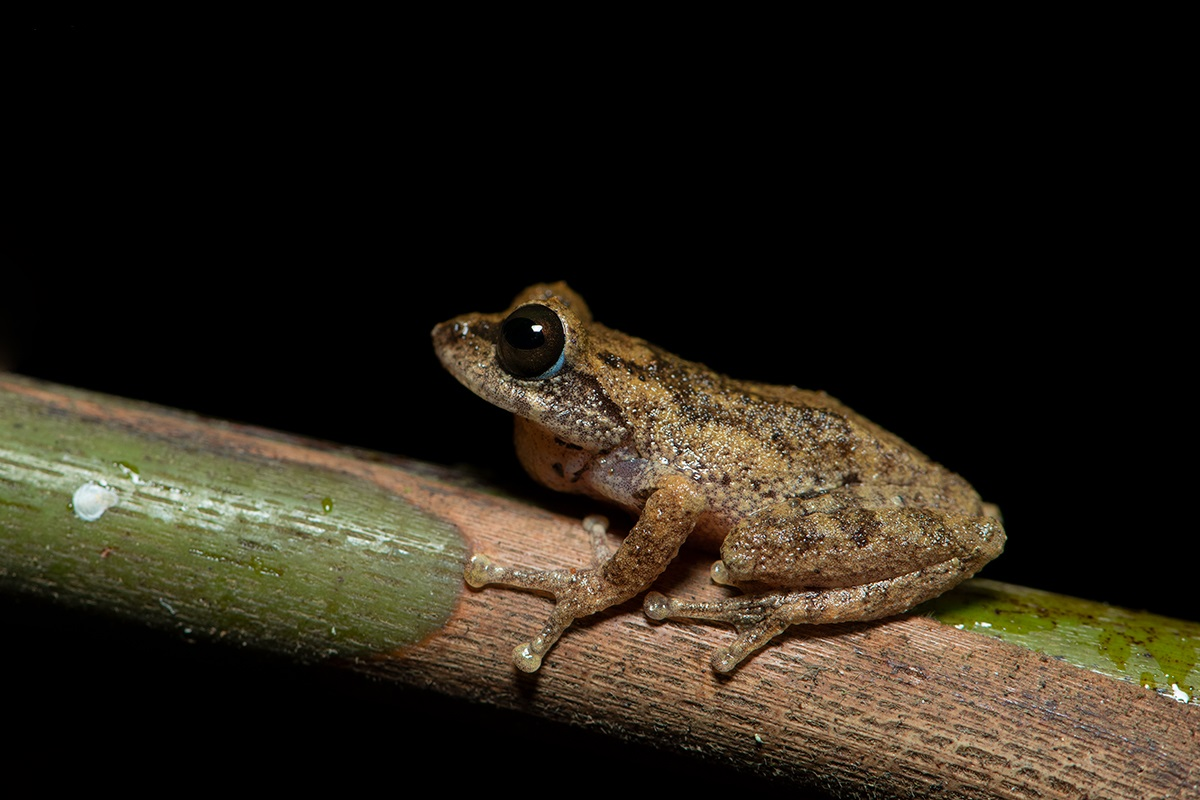 Shot this at Munnar.